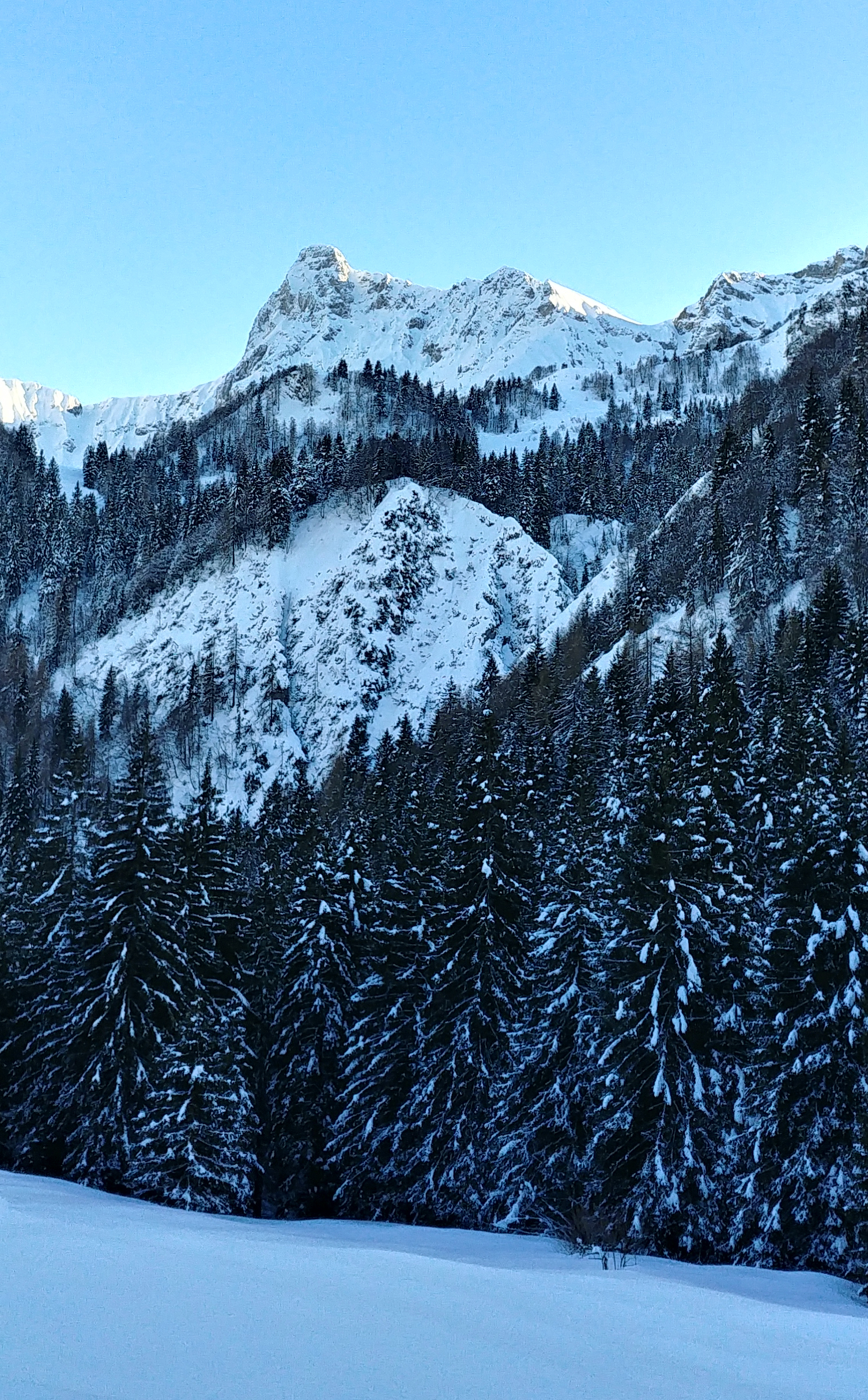 Cima di Valmora seen from Alpe Corte muontain hut